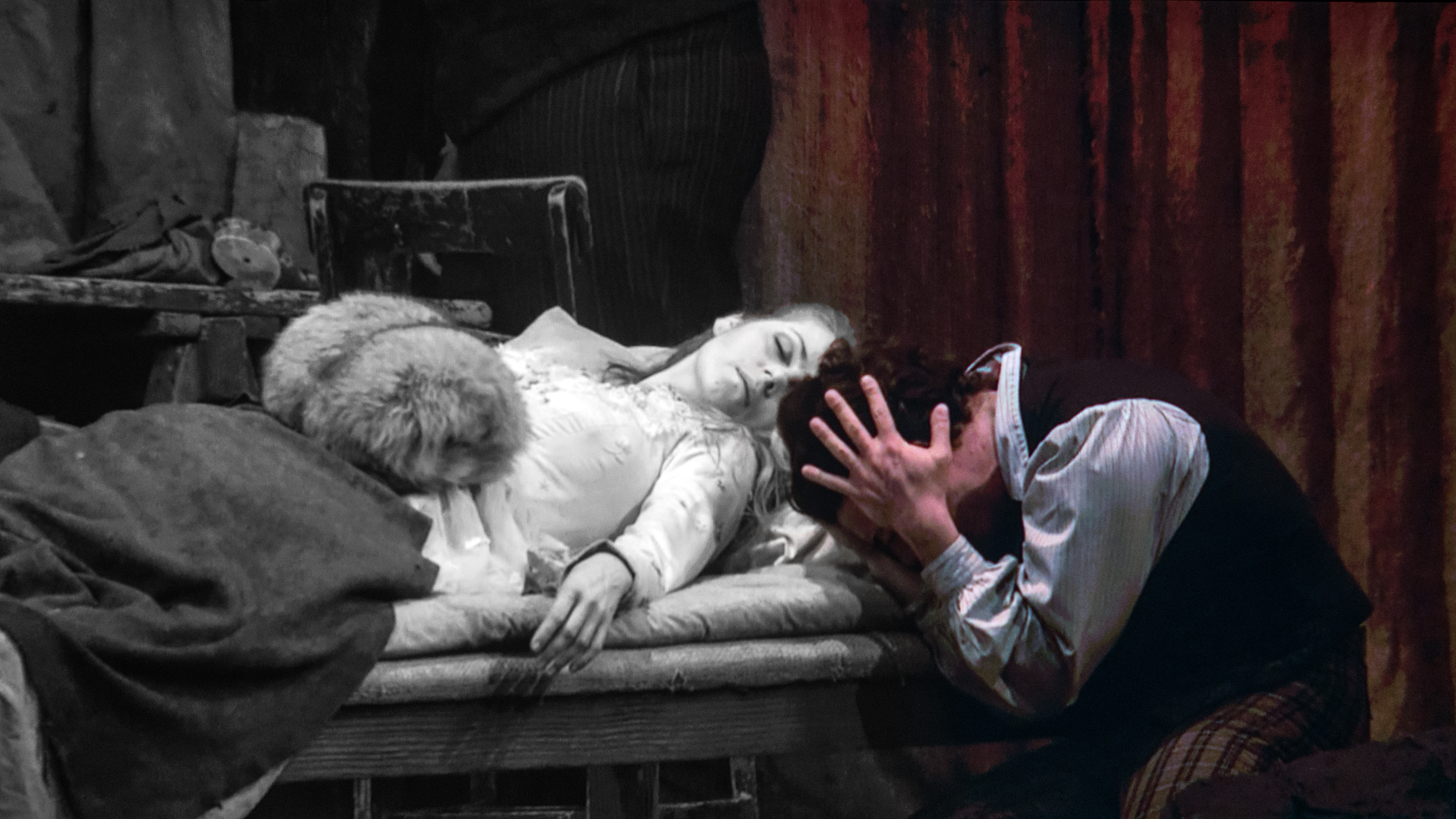 La Bohème from the Metropolitan Opera April 2014